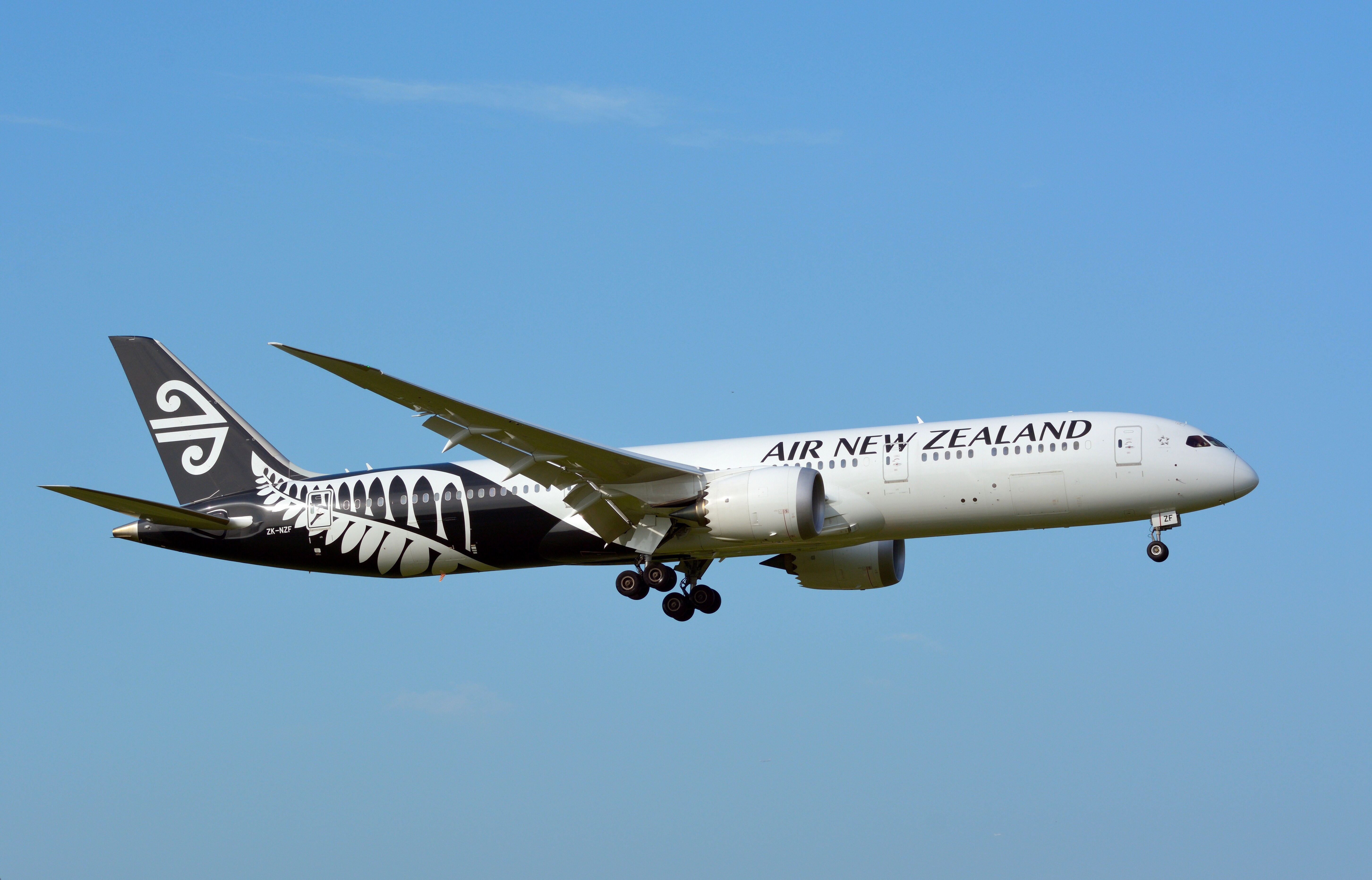 Air New Zealand, Boeing 787-9, ZK-NZF